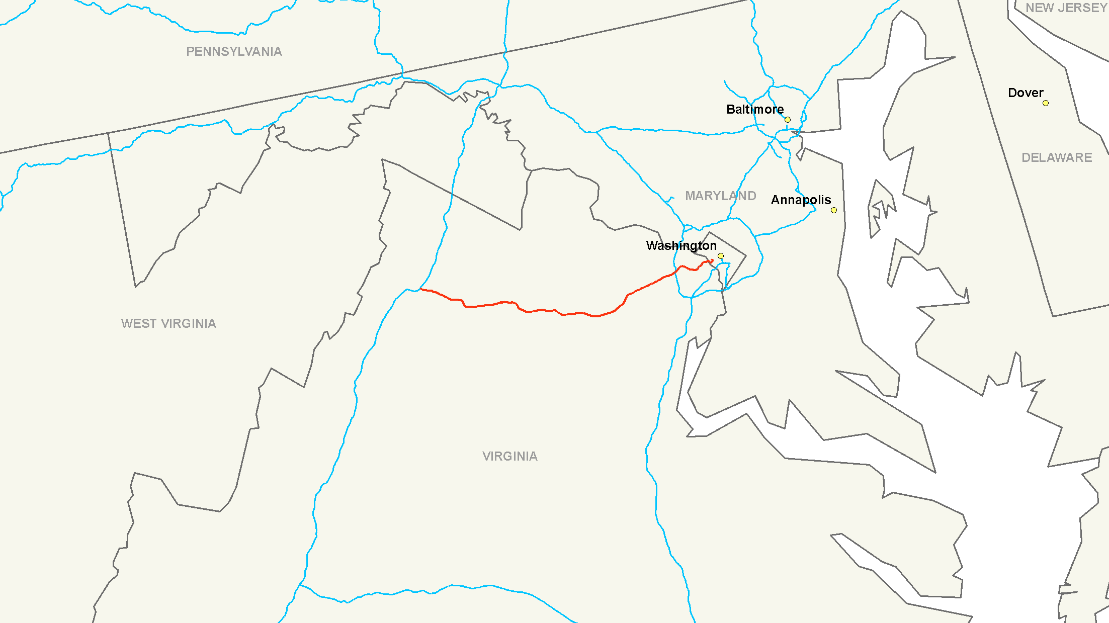 Map of Interstate 66